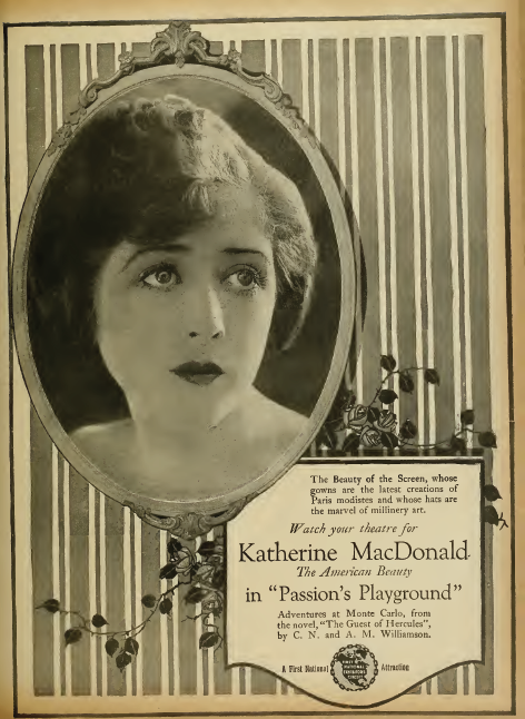 Katherine MacDonald in Passion's Playground, from Motion Picture Classic 1920